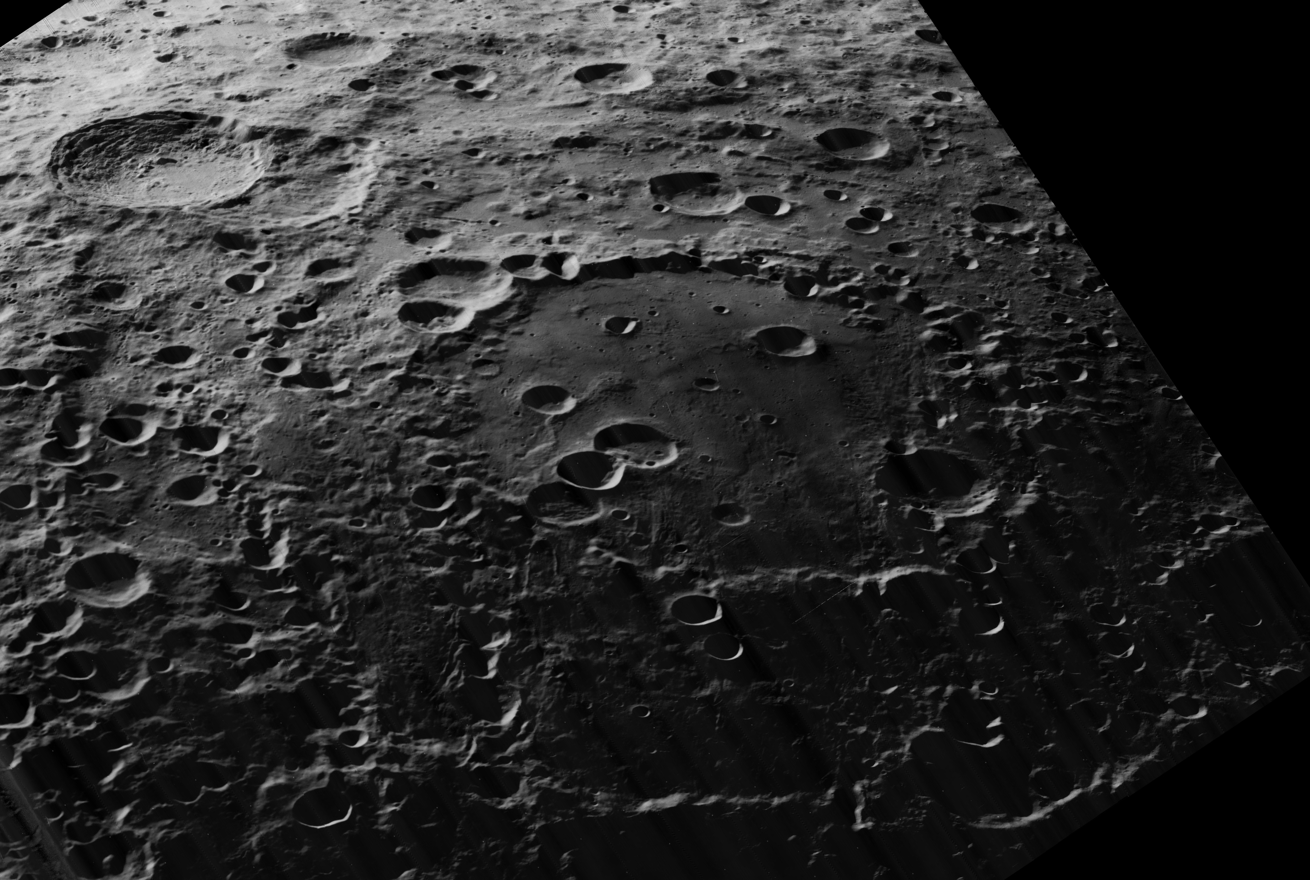 Oblique view of most of Hertzsprung (crater), on the far side of the moon, facing west.